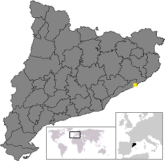 Location of Malgrat de Mar, in Catalonia